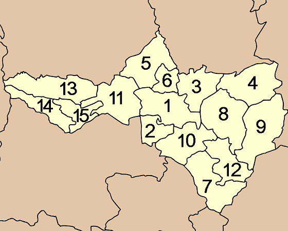 Map of Nakhon Sawan province, Thailand, with the districts (Amphoe) numbered. Mueang Nakhon Sawan (เมืองนครสวรรค์) Krok Phra (โกรกพระ) Chum Saeng (ชุมแสง) Nong Bua (หนองบัว) Banphot Phisai (บรรพตพิสัย) Kao Liao (เก้าเลี้ยว) Takhli (ตาคลี) Tha Tako (ท่าตะโก) Phaisali (ไพศาลี) Phayuha Khiri (พยุหะคีรี) Lat Yao (ลาดยาว) Tak Fa (ตากฟ้า) Mae Wong (แม่วงก์) Mae Poen (sub-district) (แม่เปิน) Chum Ta Bong (sub-district) (ชุมตาบง)